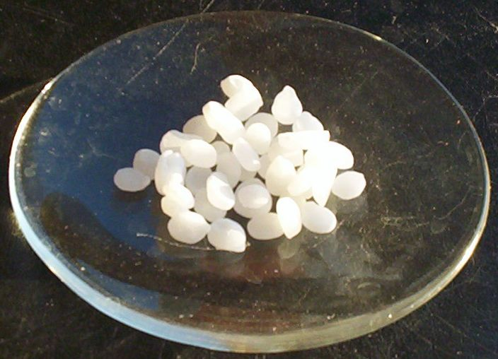 Sodium hydroxide pellets, photo taken by User:Walkerma, October 2006.